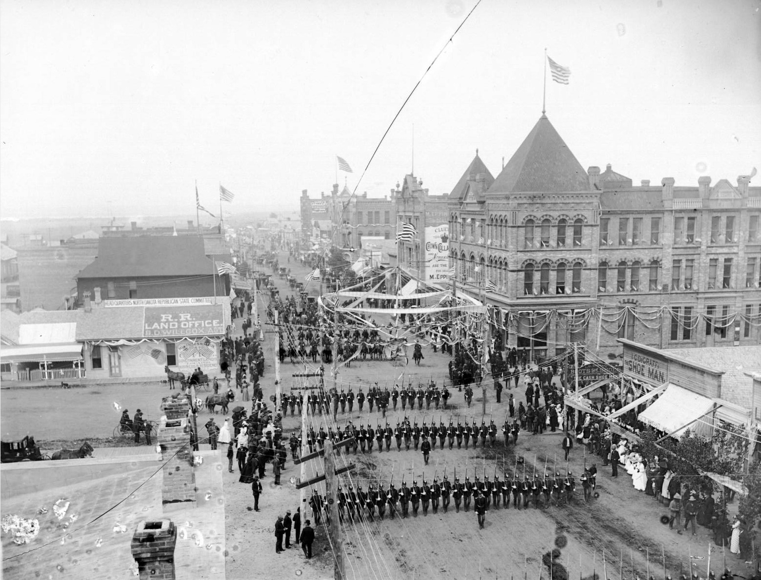 1889 Constitutional Convention parade in Bismark, North Dakota at Main and 4th streets.